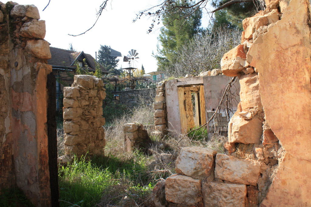 Near general store in Metula